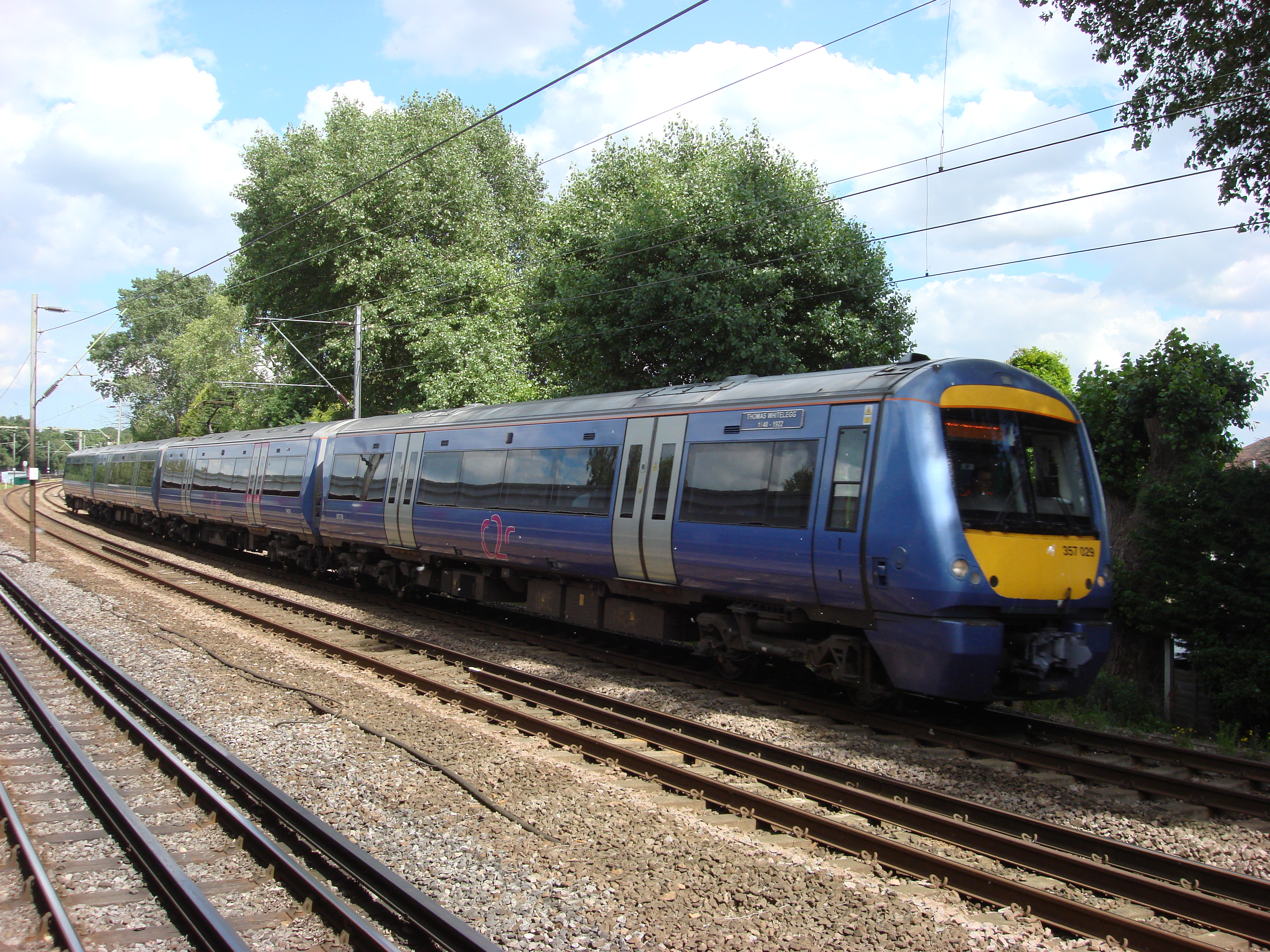 357029 passing Upminster Bridge tube station. A British Rail Class 357 Electrostar EMU currently operating on the c2c service from Fenchurch Street to Shoeburyness, named in honour of Thomas Whitelegg.